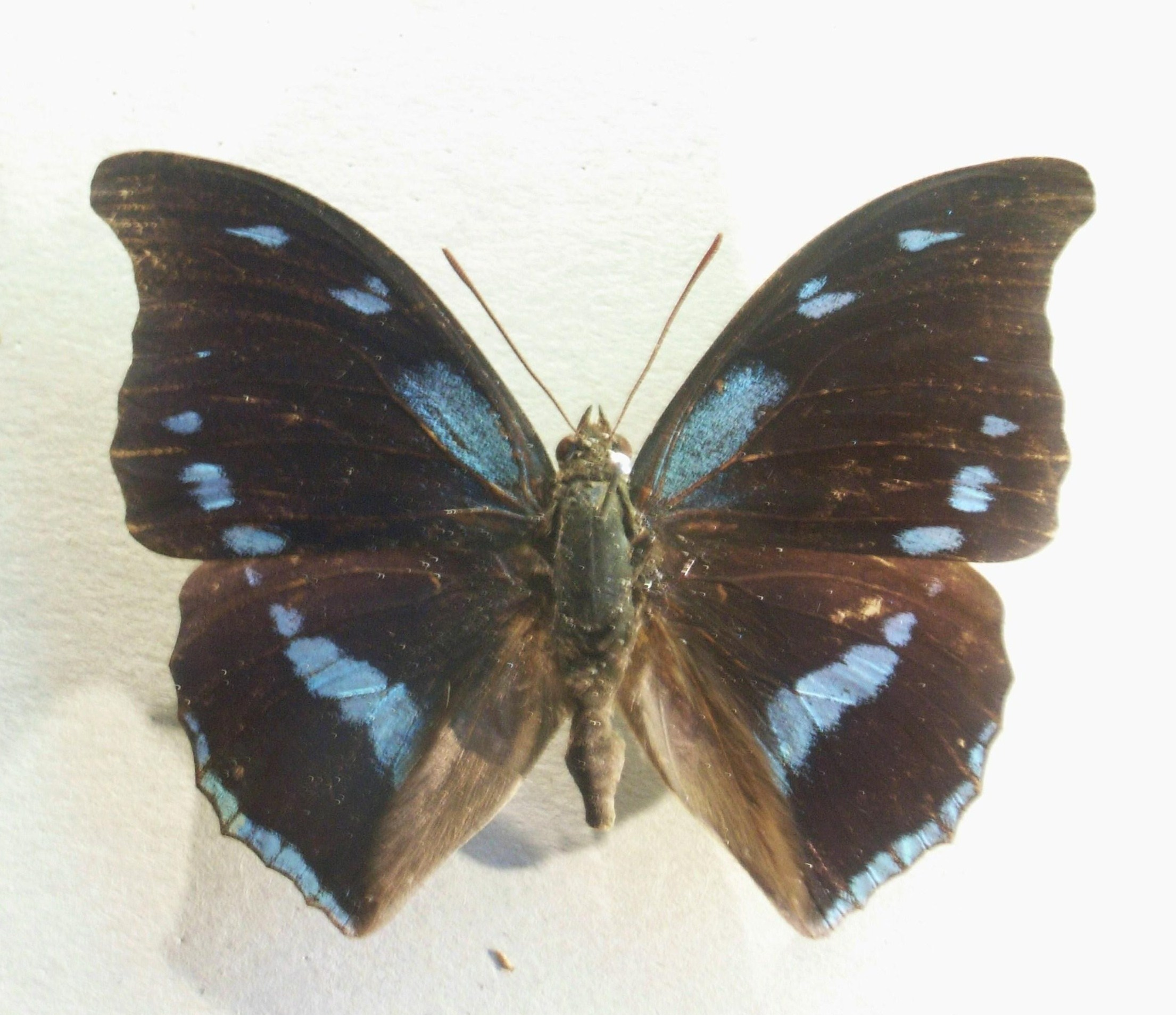 Charaxes mycerina:Charaxinae:Nymphalidae